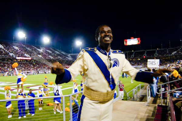 San Jose State University Marching Band Drum Major Darnell Johnson conducts the band in the stands during a football game at Stanford University.